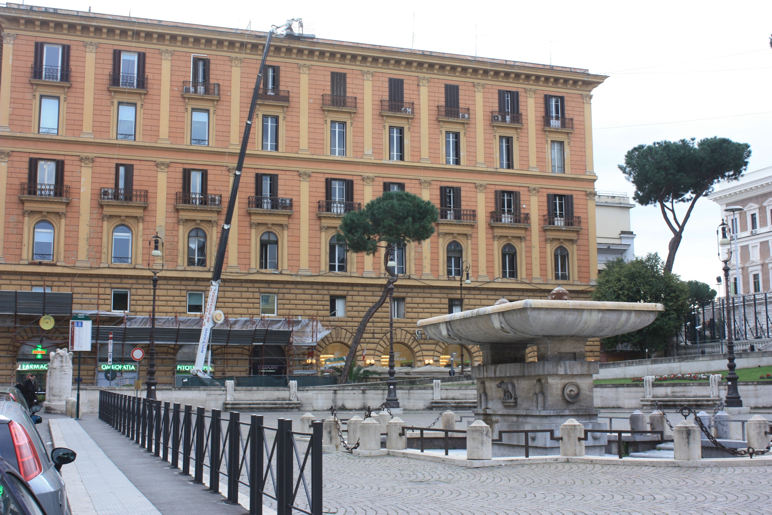 Rome, Palazzo and fountain on the square Piazza del Viminale